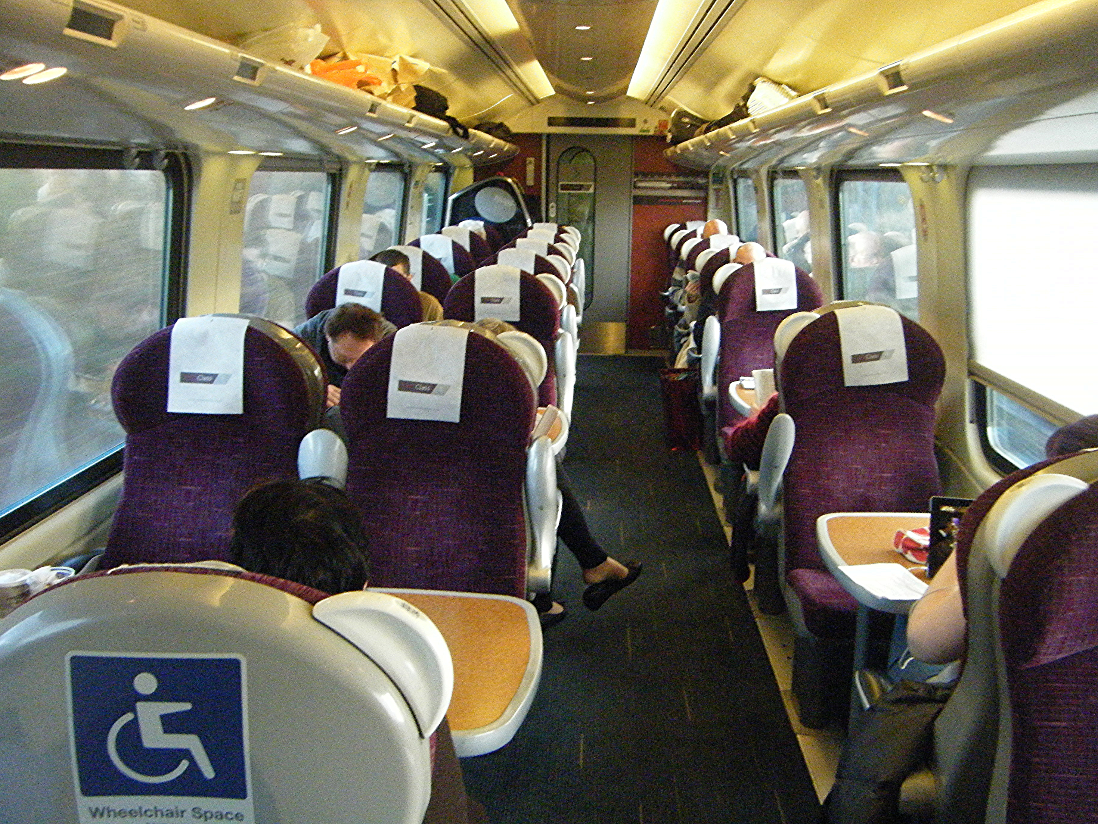 Interior of of a DMF of a Bombardier (Wakefield & Brugge) Class 221 "Super Voyager" 5-car dmu at Manchester (Piccadilly), 11/12.